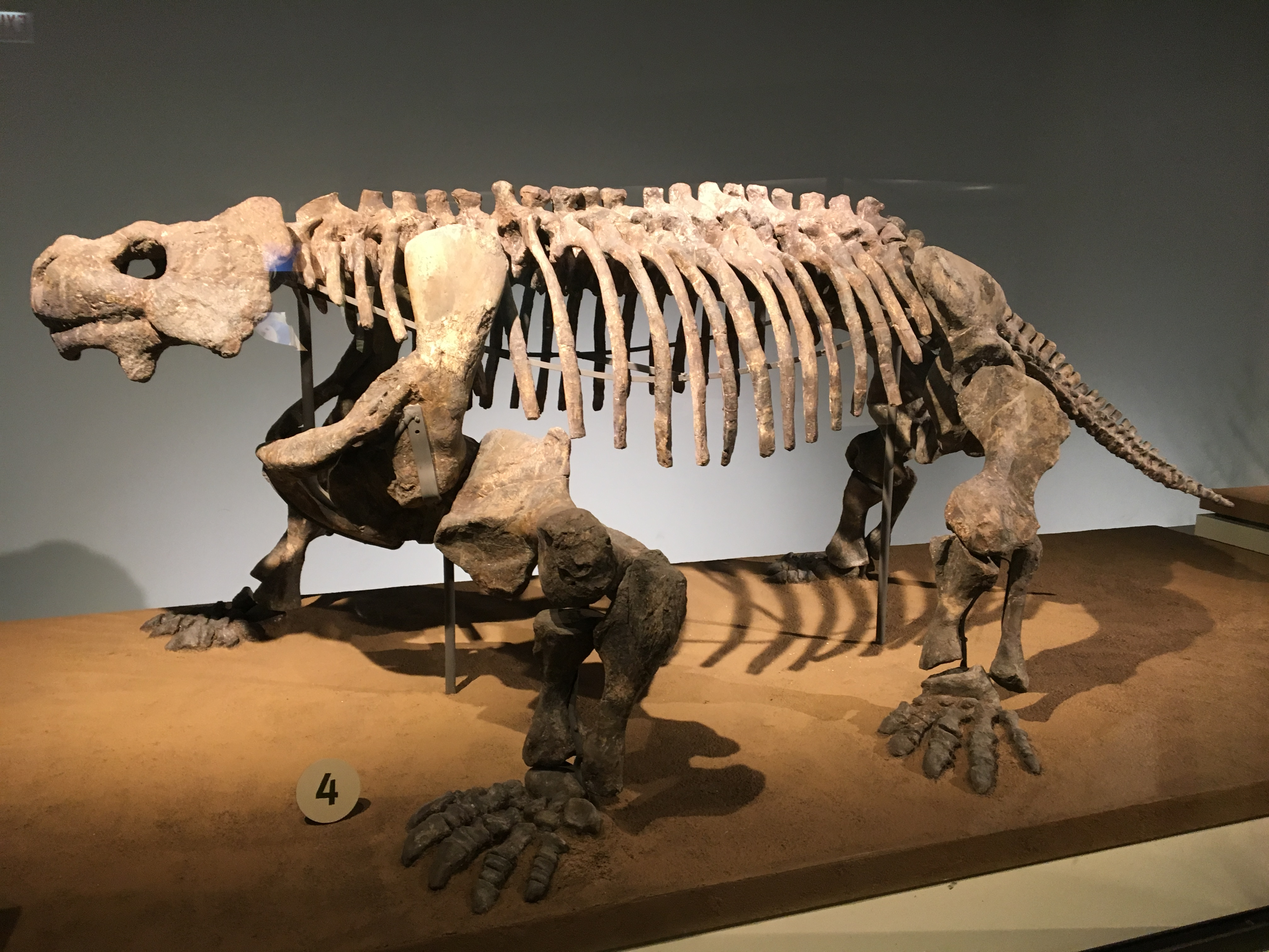 Fossil skeleton of Bradysaurus at the Field Museum of Natural History, Chicago, IL